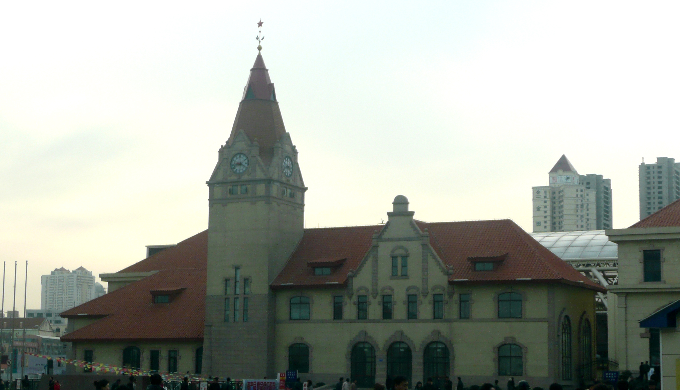 Former German railway station in Qingdao, China.